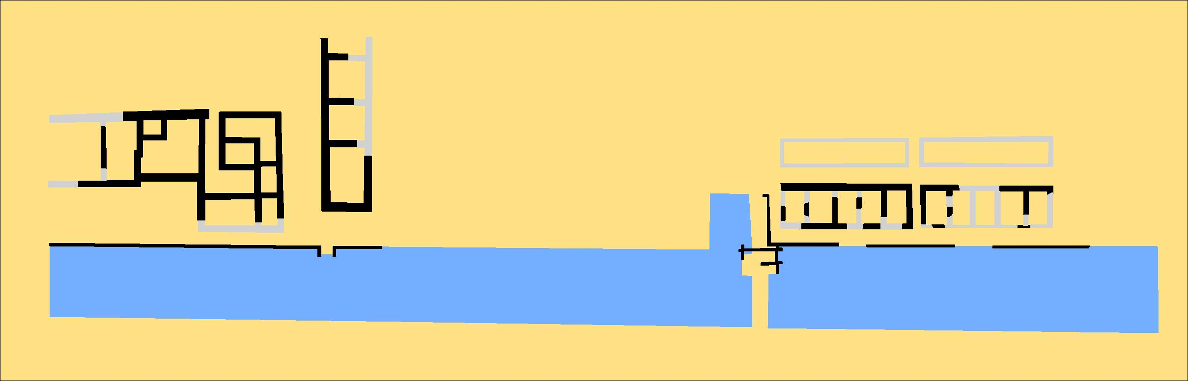 port of Roman London, around AD100, as excavated; redrawn from G. Milne: The Port of Roman London, London 1985 (reprint 1993), ISBN 0813443650 Invalid ISBN, fig. 14 on page 26. Left (West): Building of unknown function; perhaps residental; right (East): warehouses; in the middle: remains of a landing stage.